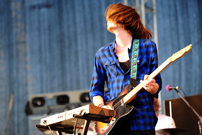 Southbound Festival 2011